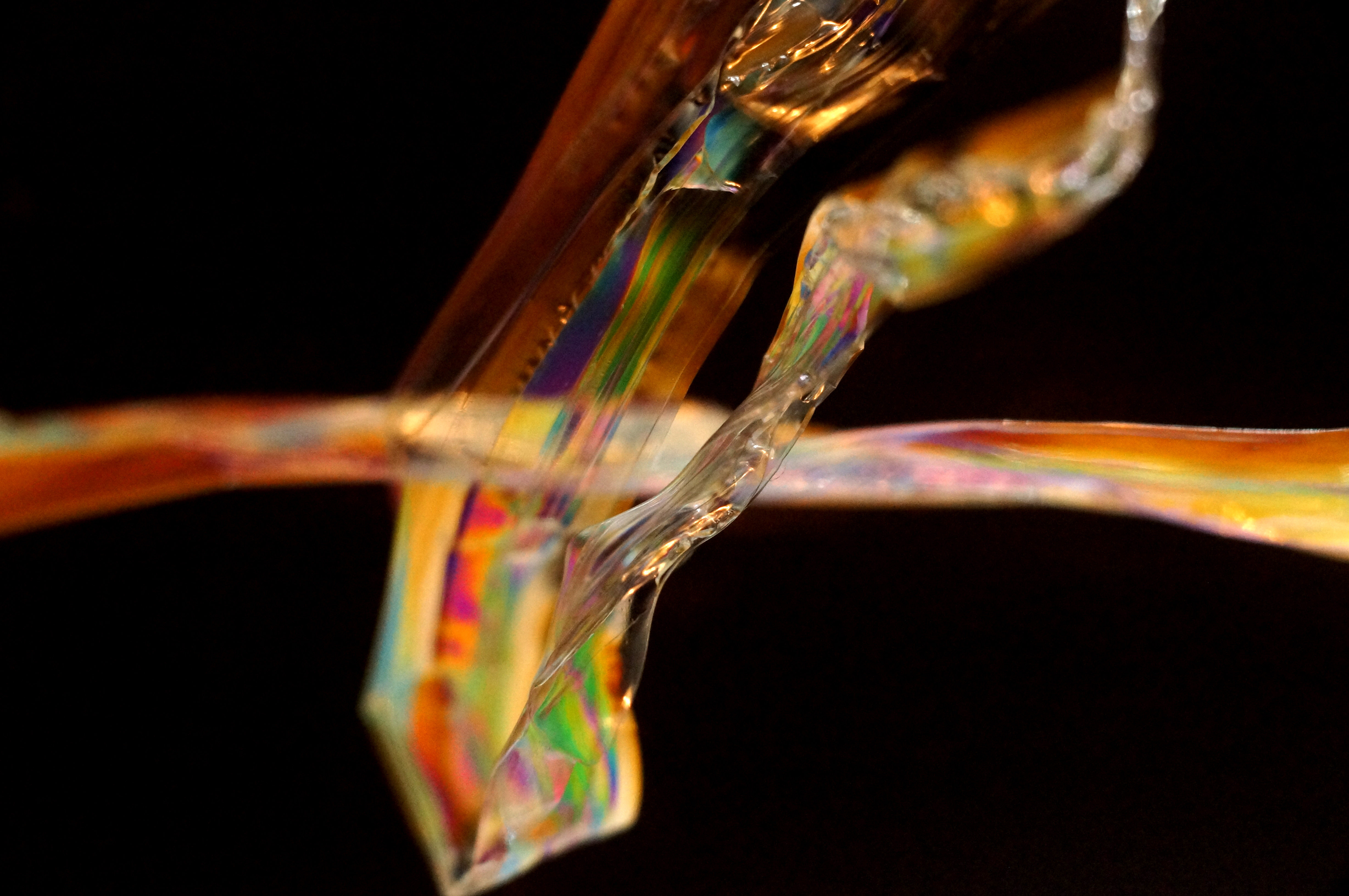 This image was created using a bit of stretched plastic film and two polarizing filters.